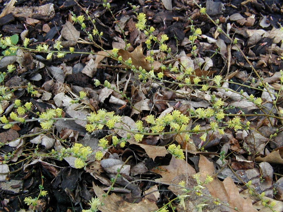 Habitus and catkins of 'Salix repens'.